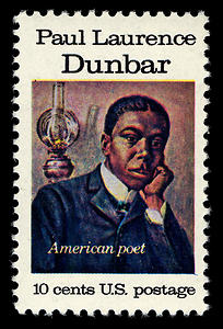 US postage stamp of 1975 (thus PD) depicting Paul Laurence Dunbar